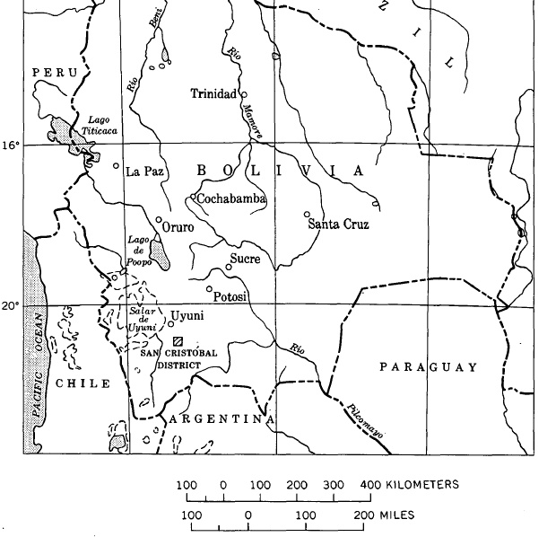 Bolivia Map